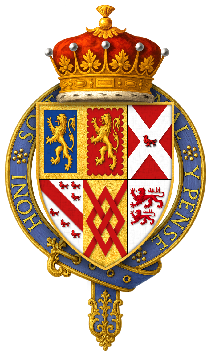 Coat of arms of Sir George Talbot, 4th Earl of Shrewsbury, KG See his stall plate, still intact, within its original stall at St. George's Chapel - arms are quarterly of six: 1, azure a lion rampant within a bordure or (Talbot, ancient); 2, gules a lion rampant within a bordure engrailed or (Talbot); 3, gules a saltire argent, a martlet for difference (Neville); 4, argent a bend between six martlets gules (Furnival); 5, or fretty gules (Verdon); 6, argent two lions passant gules (Strange).